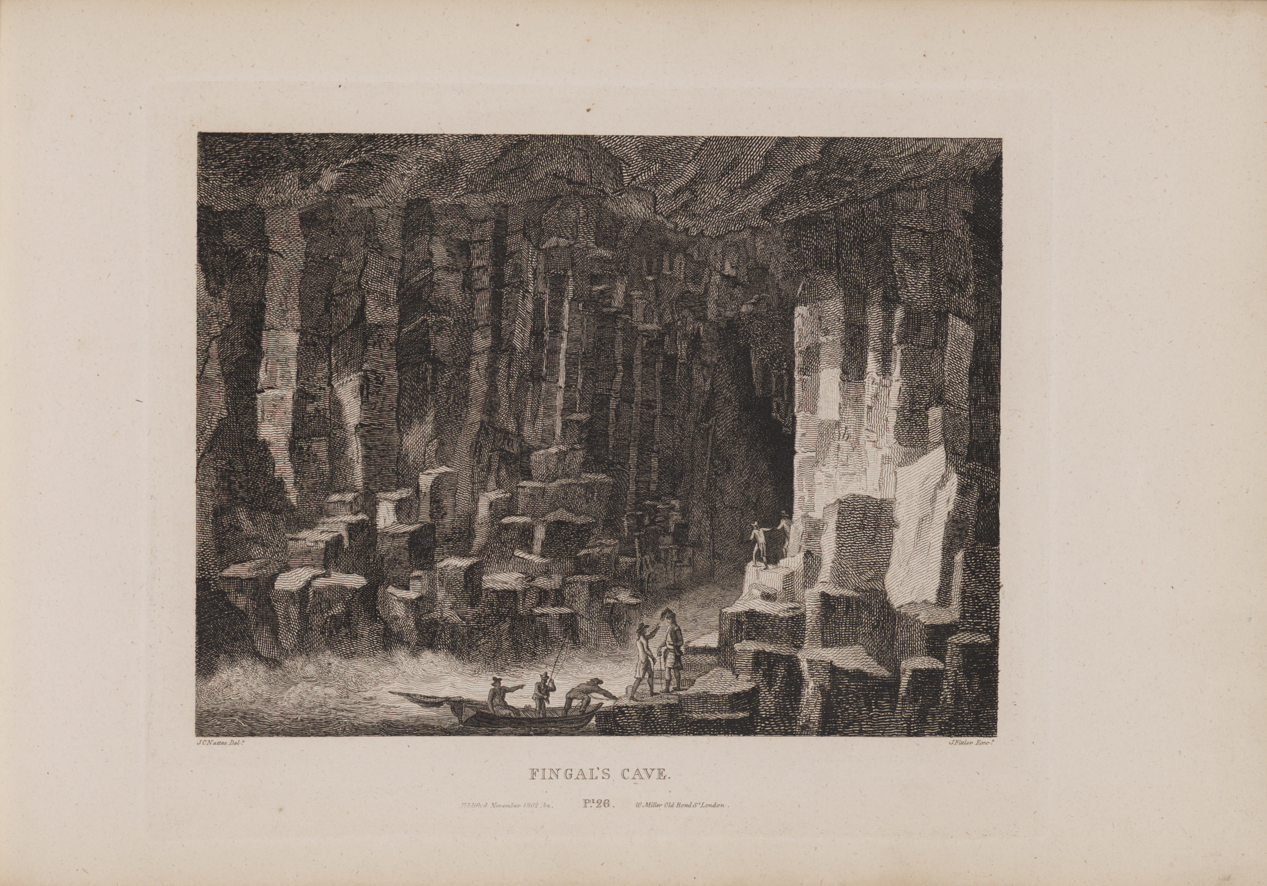 Plate XXVI/b - John Claude Nattes made drawings of suitable scenes on the spot; etchings are by James Fittler.